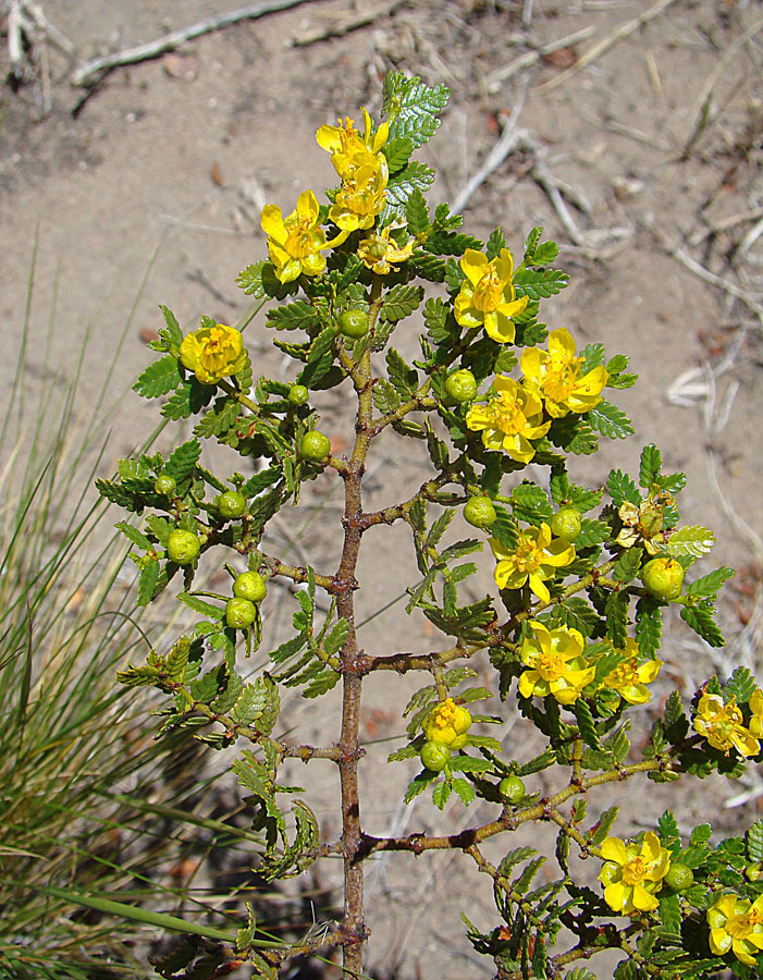 Known in its native range of southern Argentina as Jarilla Fina. In context at